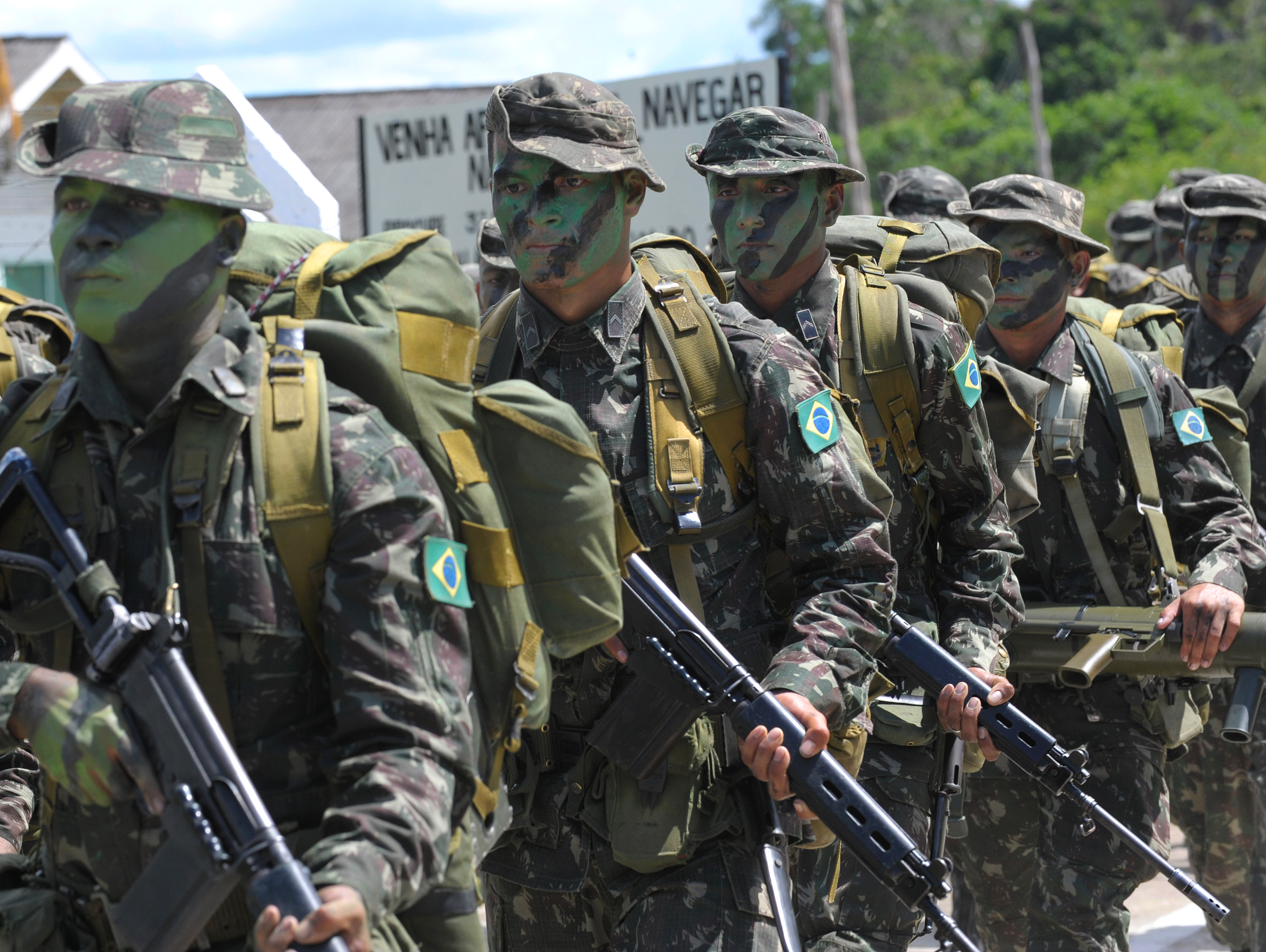 Soldiers from the Ipiranga Special Border Platoon marching during a ceremony honoring U.S. Navy Adm. Mike Mullen, chairman of the Joint Chiefs of Staff, during his visit to Ipiranga, Brazil.